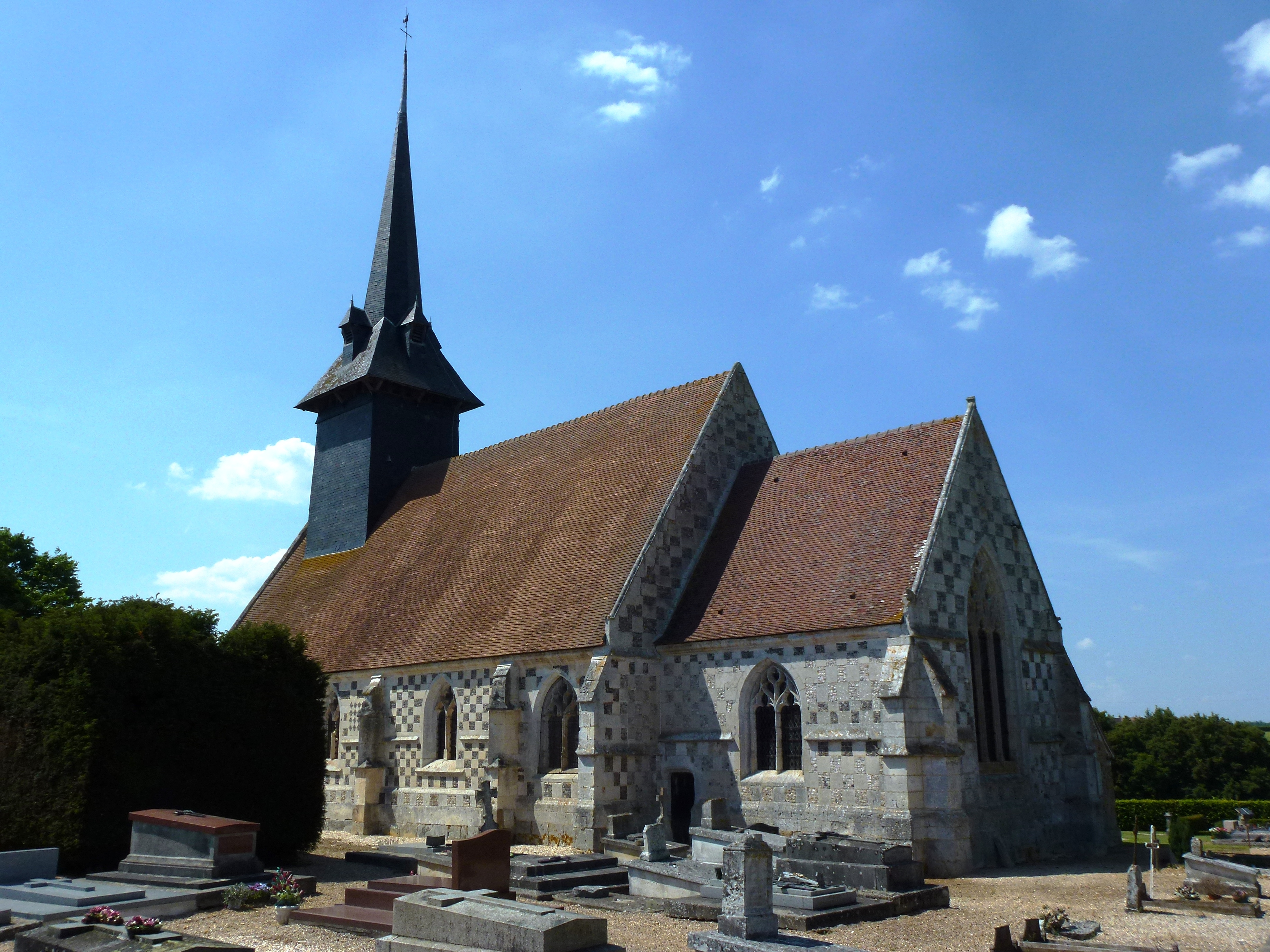 Sébécourt (Eure, Fr) église Saint-Nicolas .